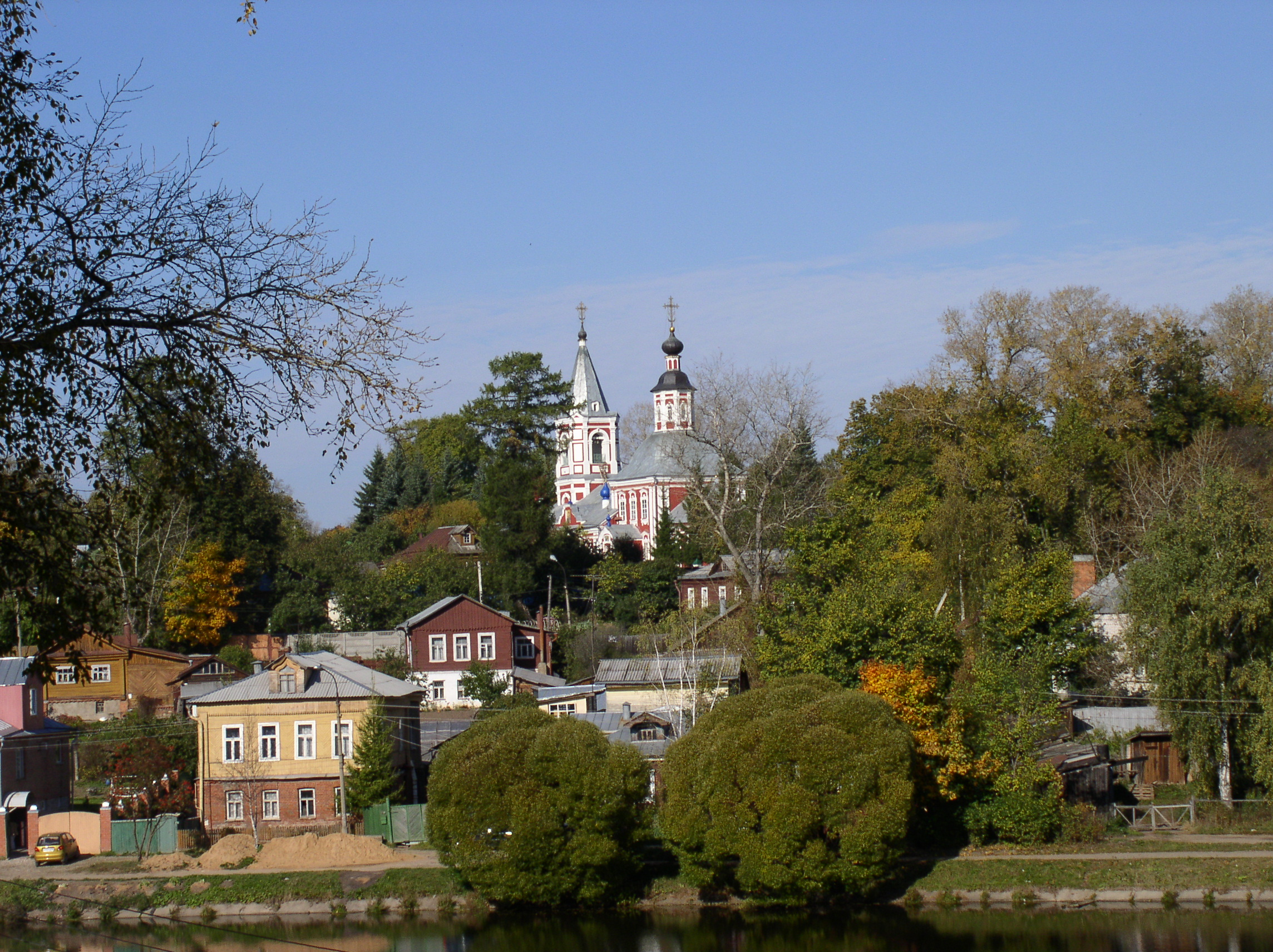 Church of Prophet Elijah. Sergiev Posad, Russia.